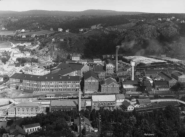 Saugbrugsforeningen at Kaken in Halden, Norway